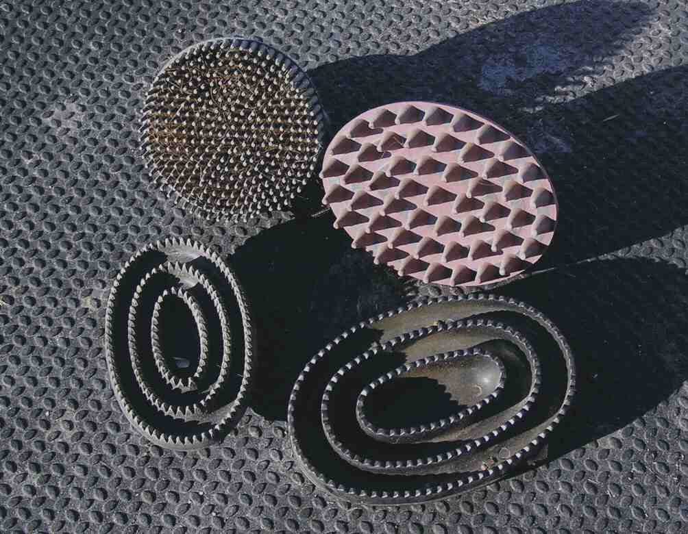 Four types of rubber currycombs, suitable for grooming horses. The currycomb should generally not be used on the head. However, the blue curry on the top left of this image has soft rubber teeth and could be gently used to remove hair and dirt from around the forehead and ears, as well as on the legs.